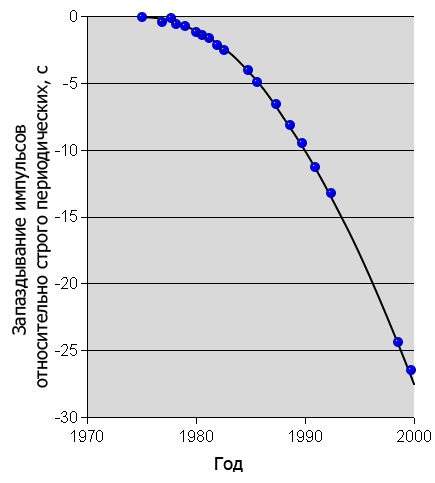 Double star system PSR 1913+16 looses energy due to gravitational wave radiation. Diagram compares calculated (solid line) and measured change of revolution time.